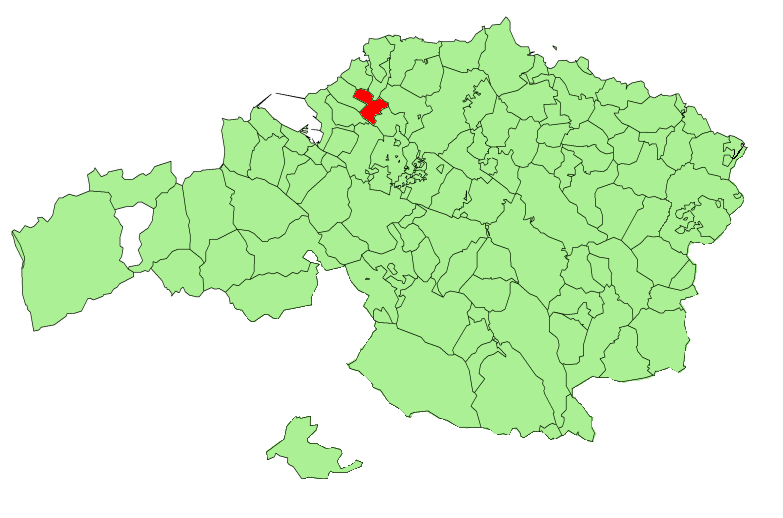 Urduliz municipality in the province of Biscay